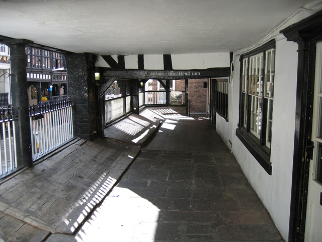 Part of Watergate Row, Chester At first floor level in several of Chester's streets, the Rows are a unique and picturesque asset to the city. Watergate Street is on the left hand side here, and Katie's Tearooms are on the right. The Watergate Gallery is at the end of this section where the steep steps drop down to Crook Street. The low beam is genuine and very solid, ignore the warning at your peril.